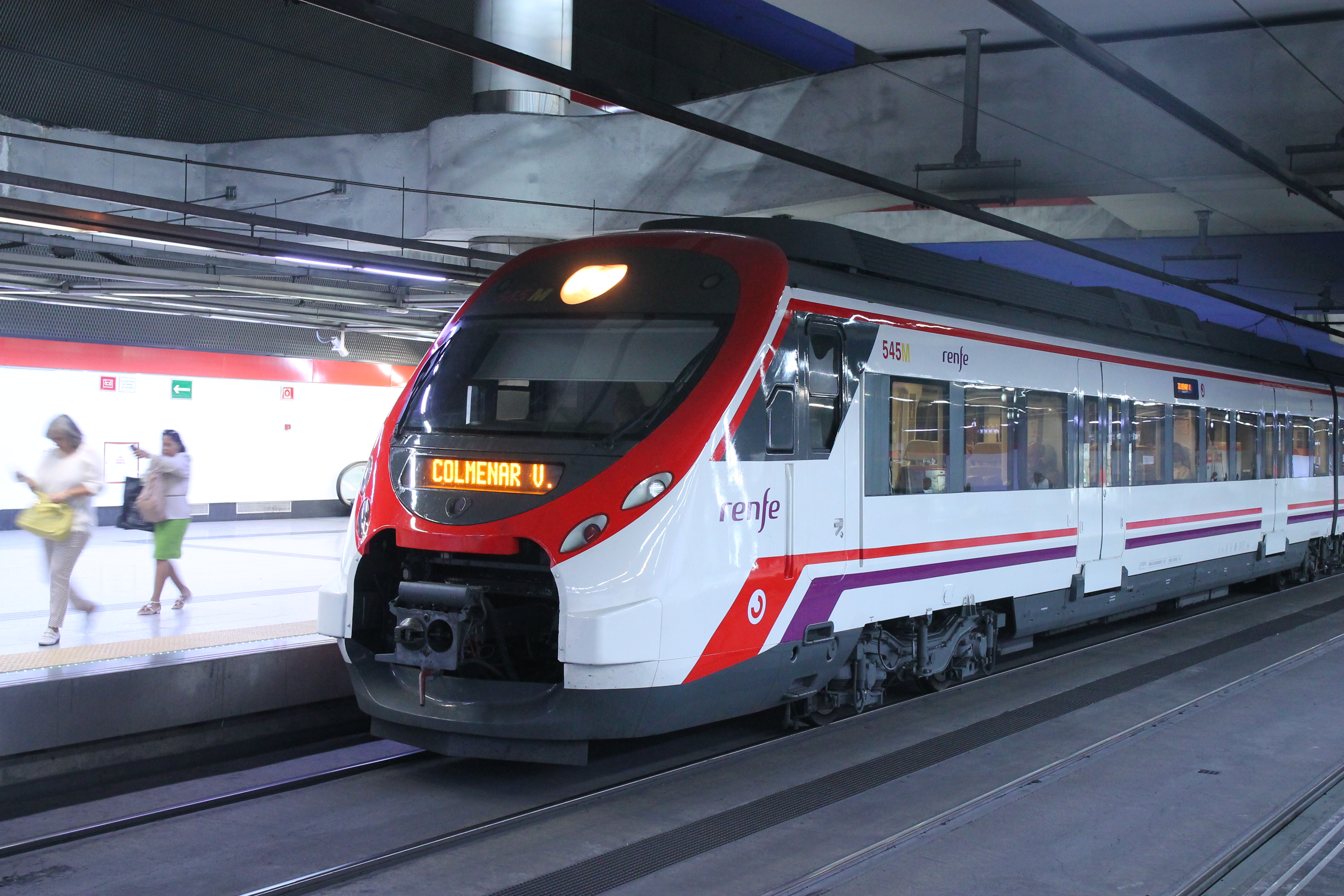 Nuevos Ministerios station, Cercanías, platform 6, train RENFE class Civia